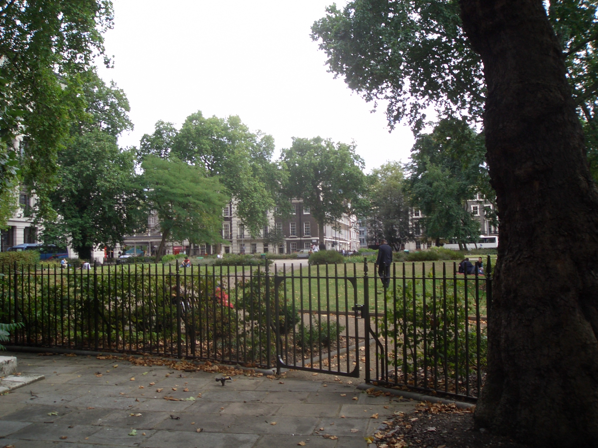 Bloomsbury Square.